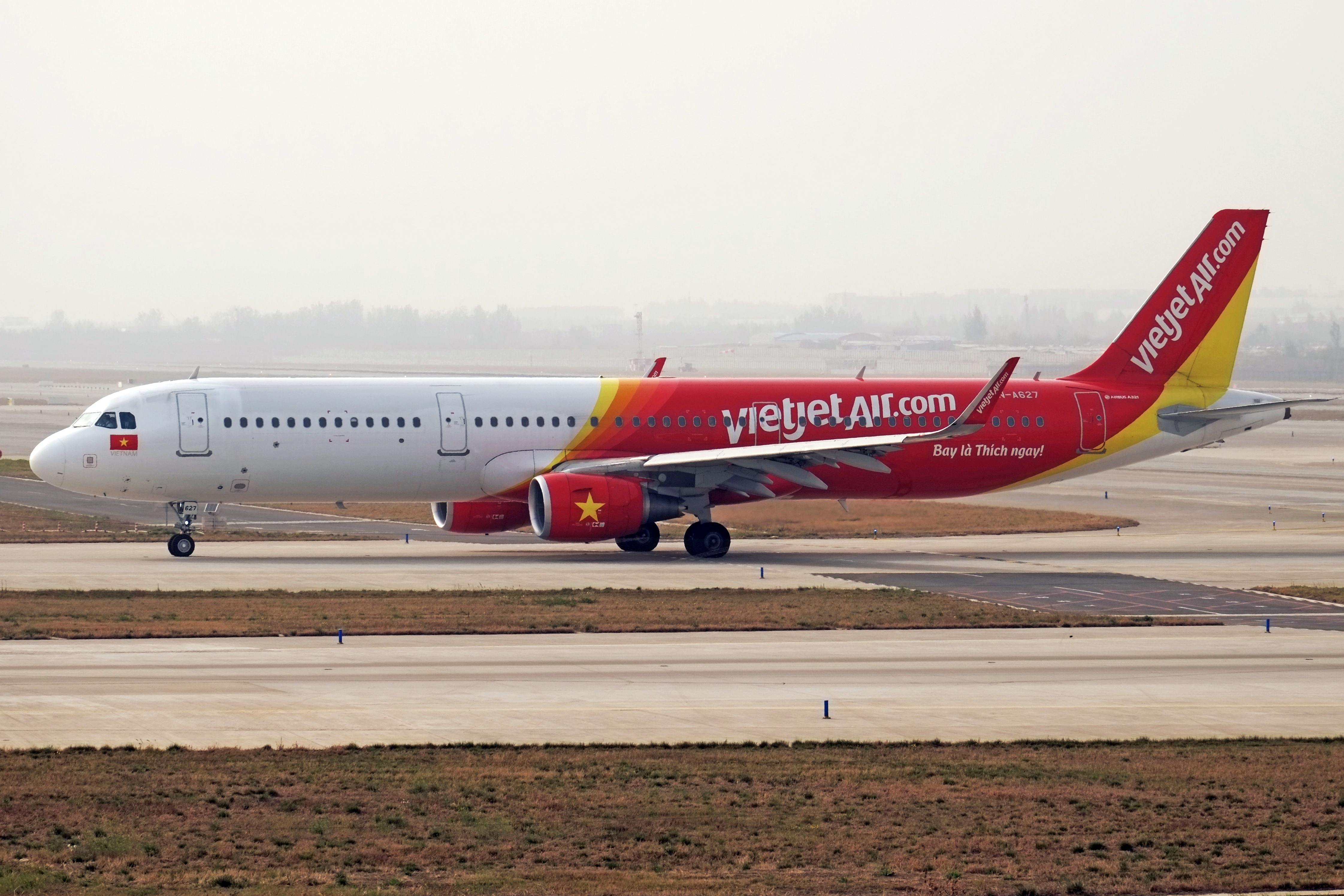 VN-A627 on flight VJ5259 to Nha Trang at CGO